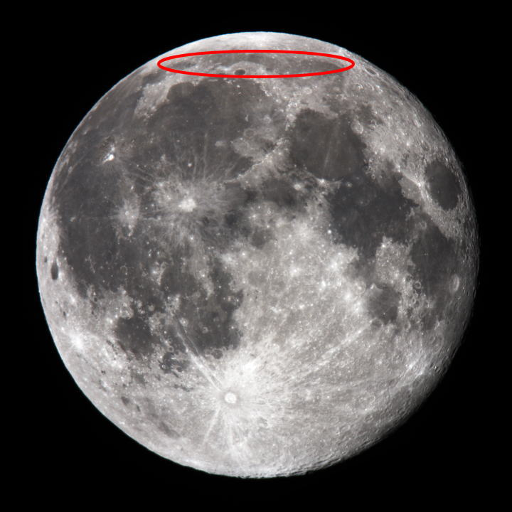 The Location of Mare Frigoris, One of the Lunar Geographical Features.